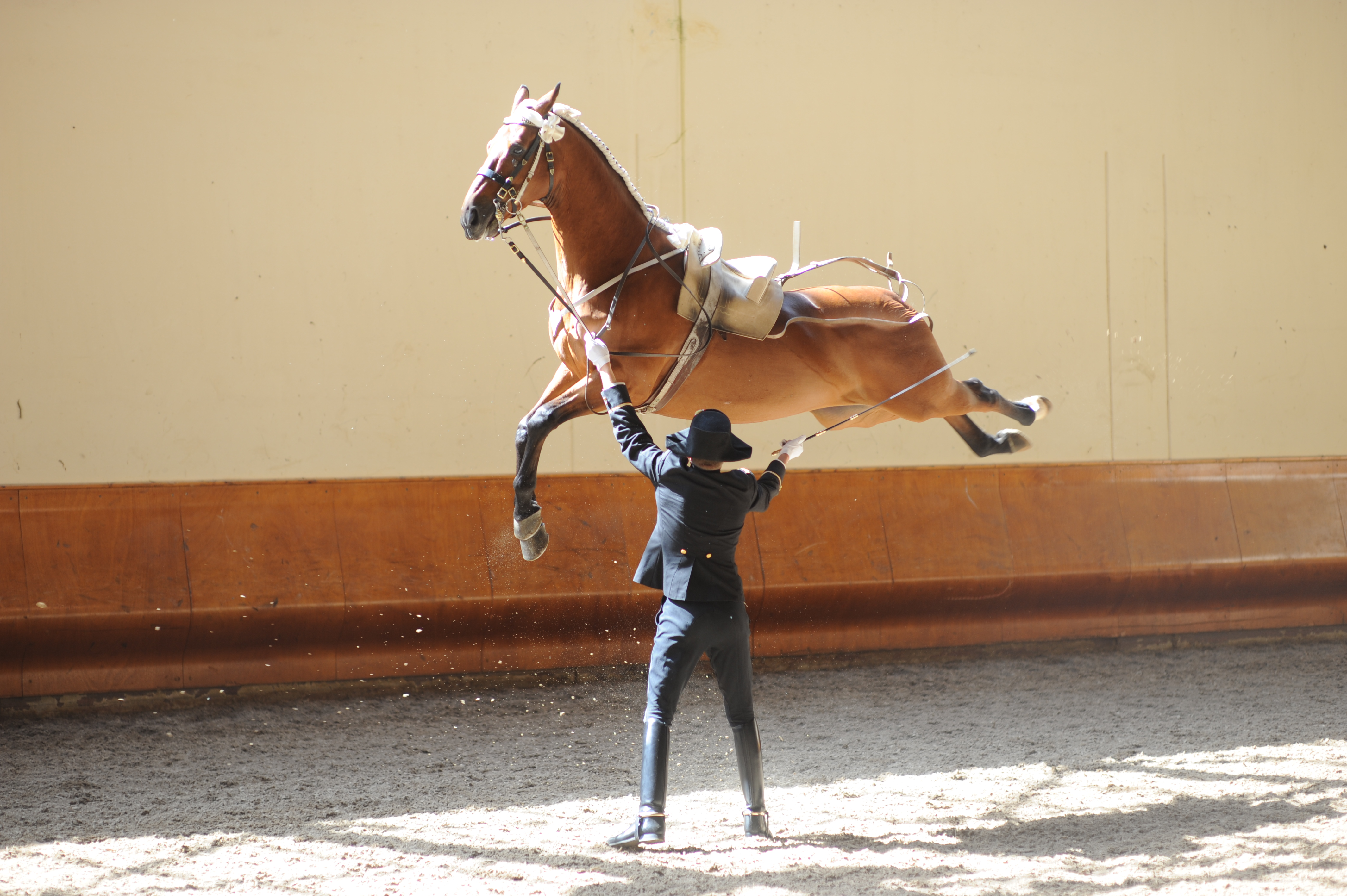 This photograph was taken by a Wikipedian, or provided by the Cadre noir, during a special day in May 2012 English | français | +/−